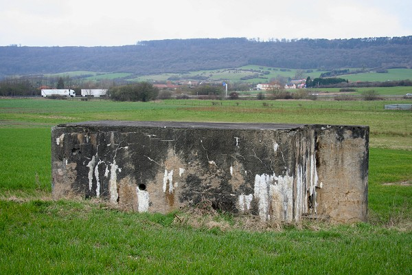 Machine gun blockhaus from Maginot Line at Oeutrange (Moselle - France)